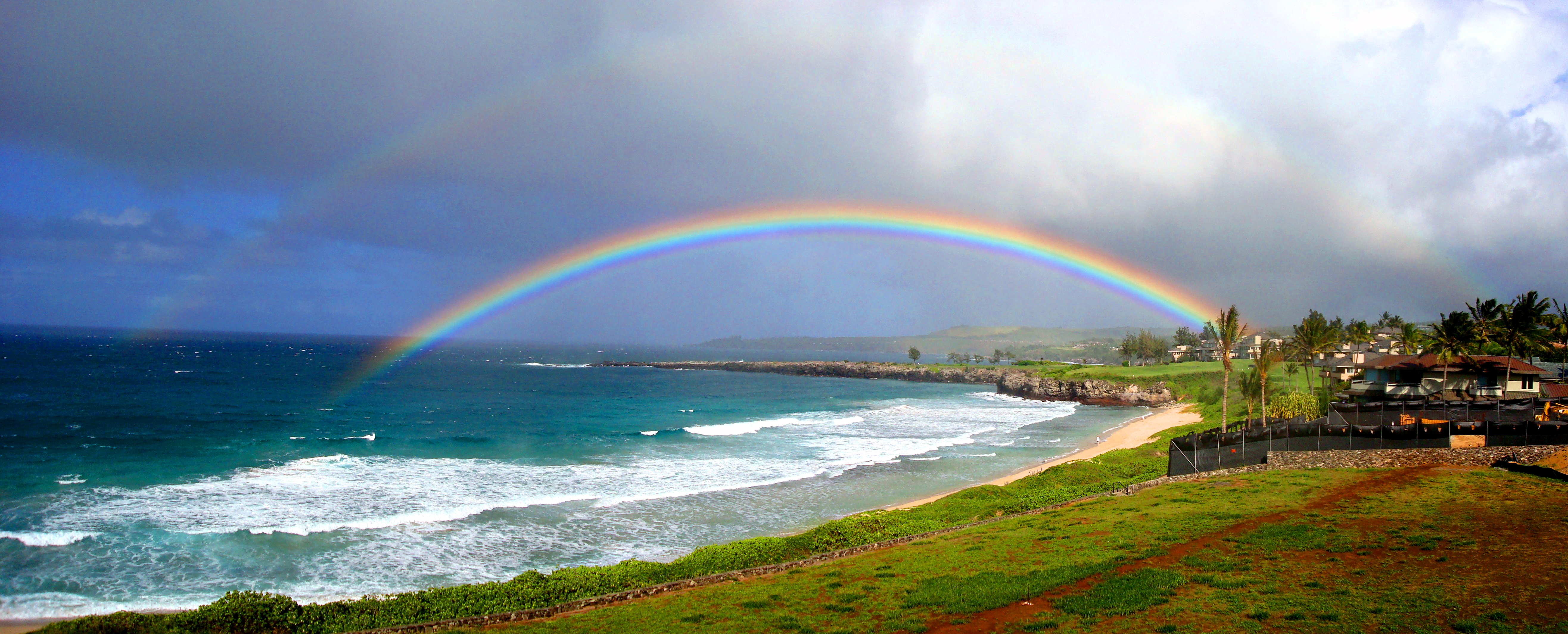 Panoramic view of double rainbow at Kapalua Bay, Maui, Hawaii by James L. Perry (actor)